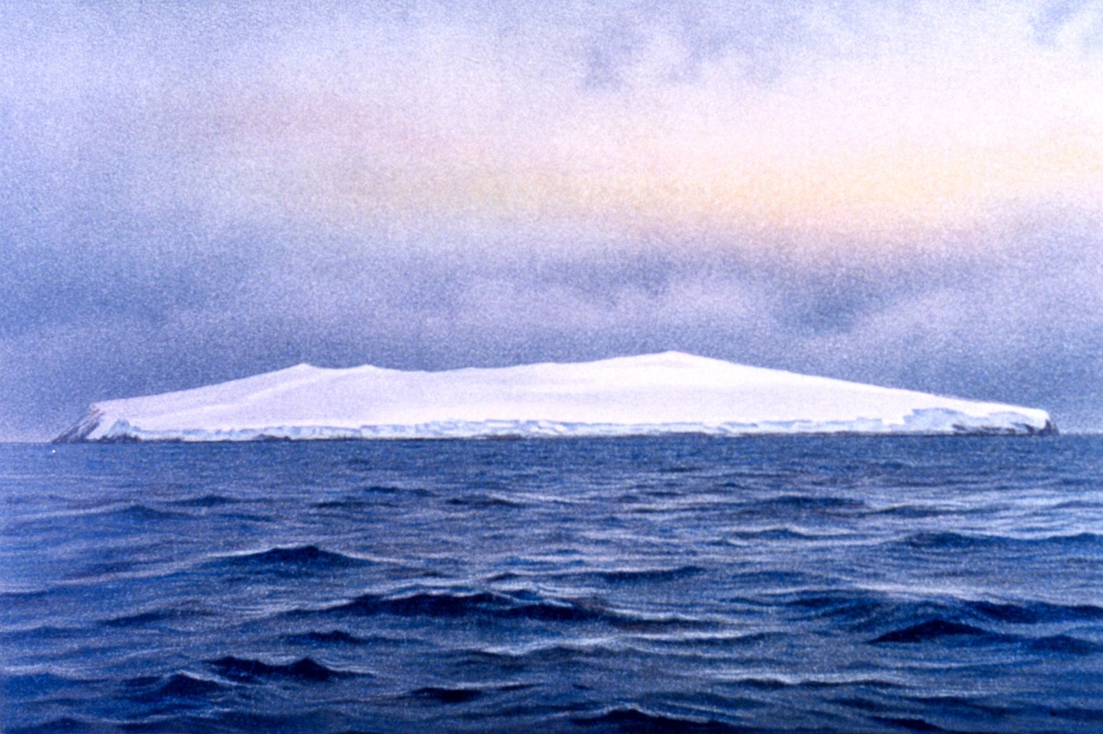 Bouvet Island, southeast side, as seen at sunrise, eight miles distant. Black and white photograph coloured by hand. Photo taken on the German Valdivia expedition.